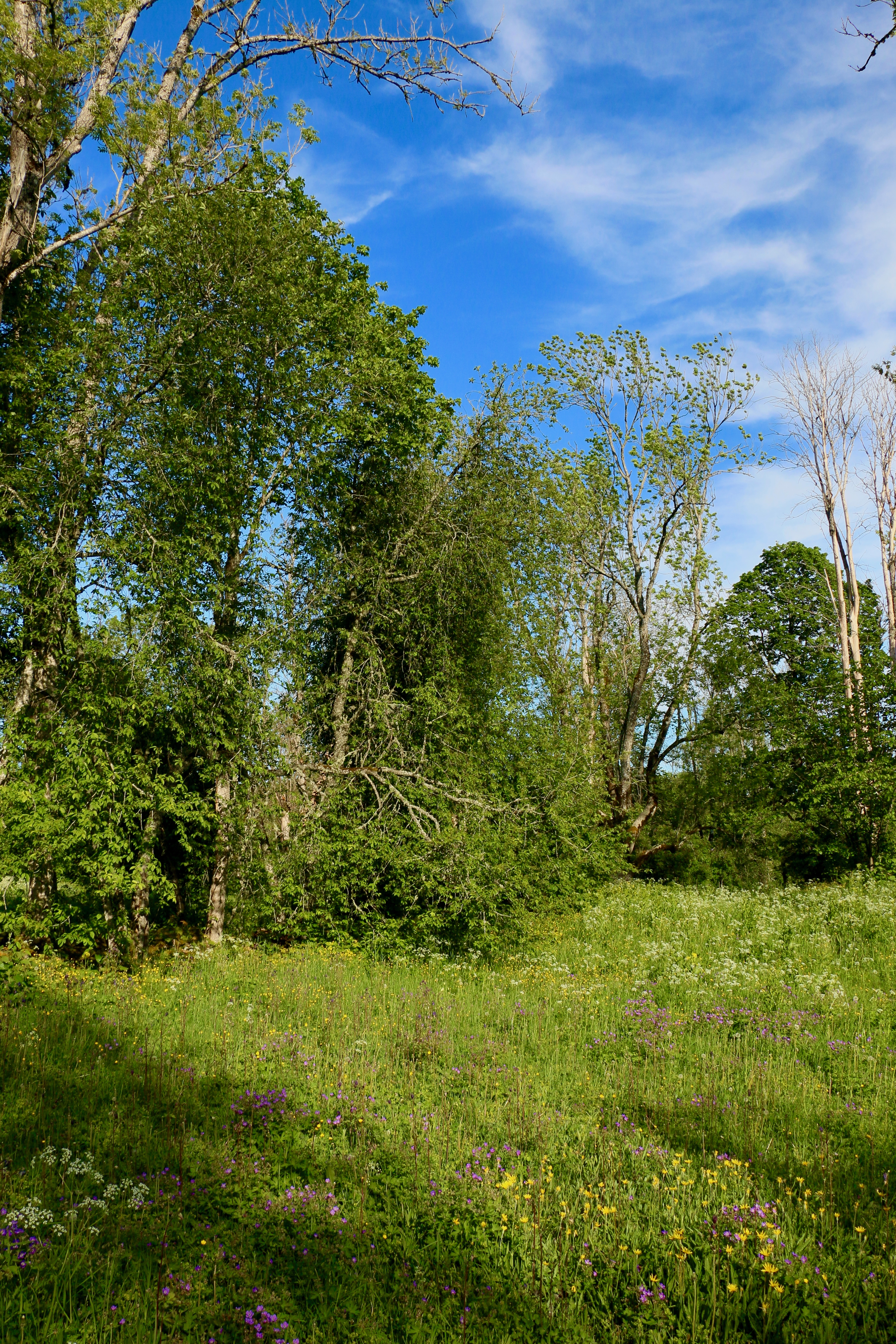 Meadows in Garphyttan national park